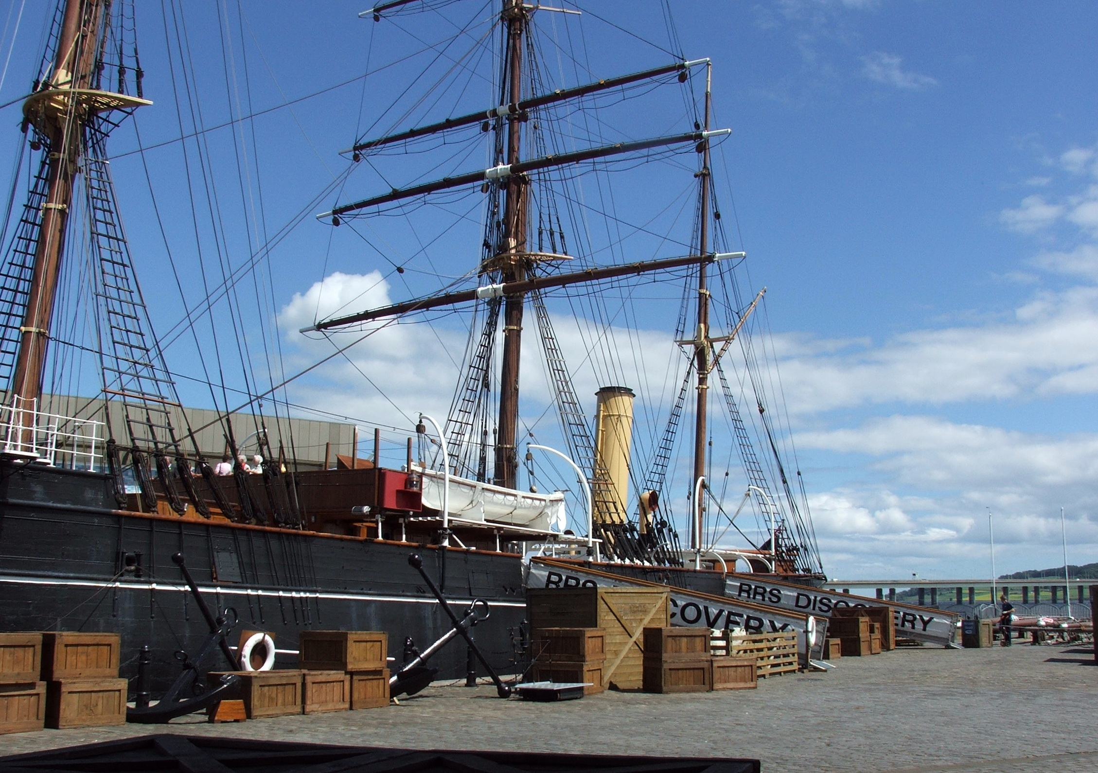 RRS Dicovery in Dundee